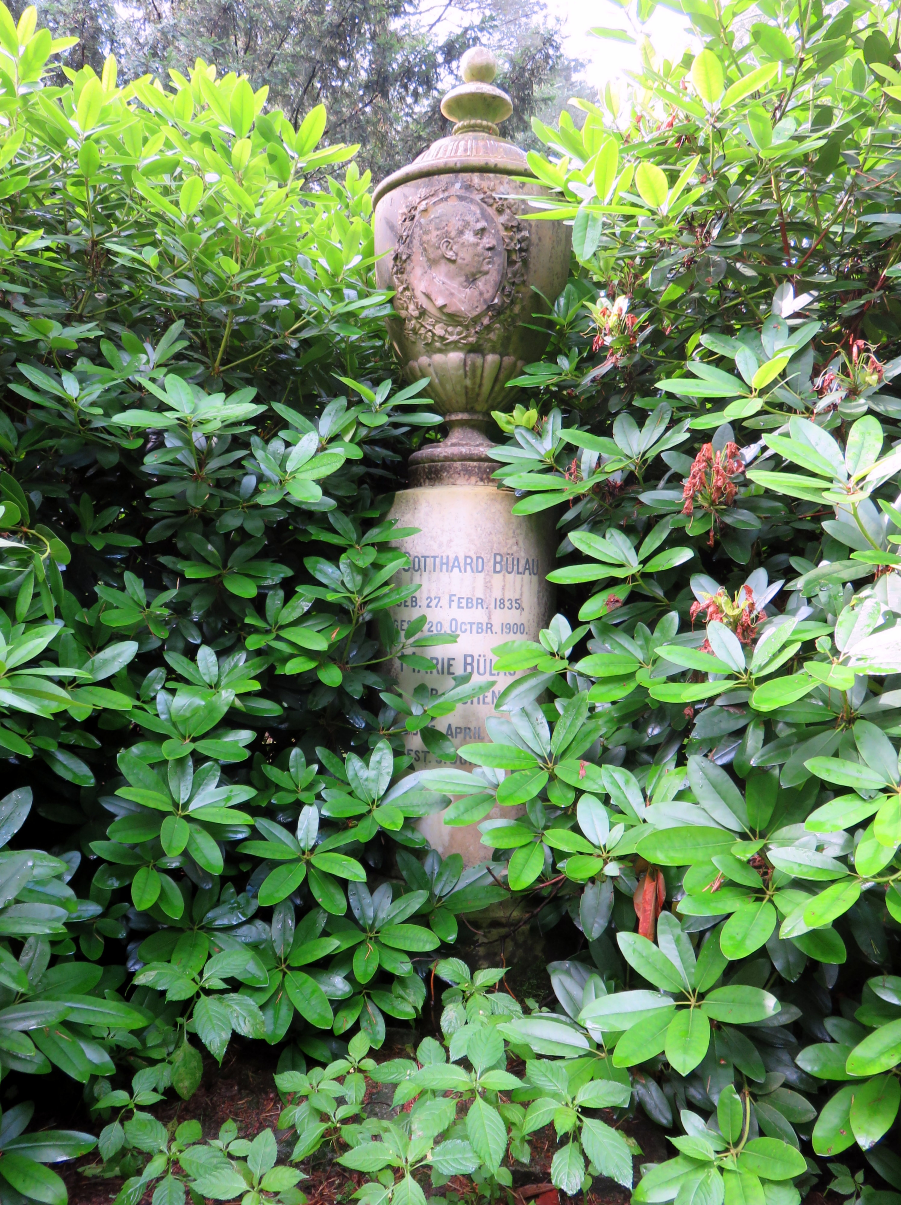 Grave for German medical doctor Gotthard Bülau of 1901, Friedhof Ohlsdorf.